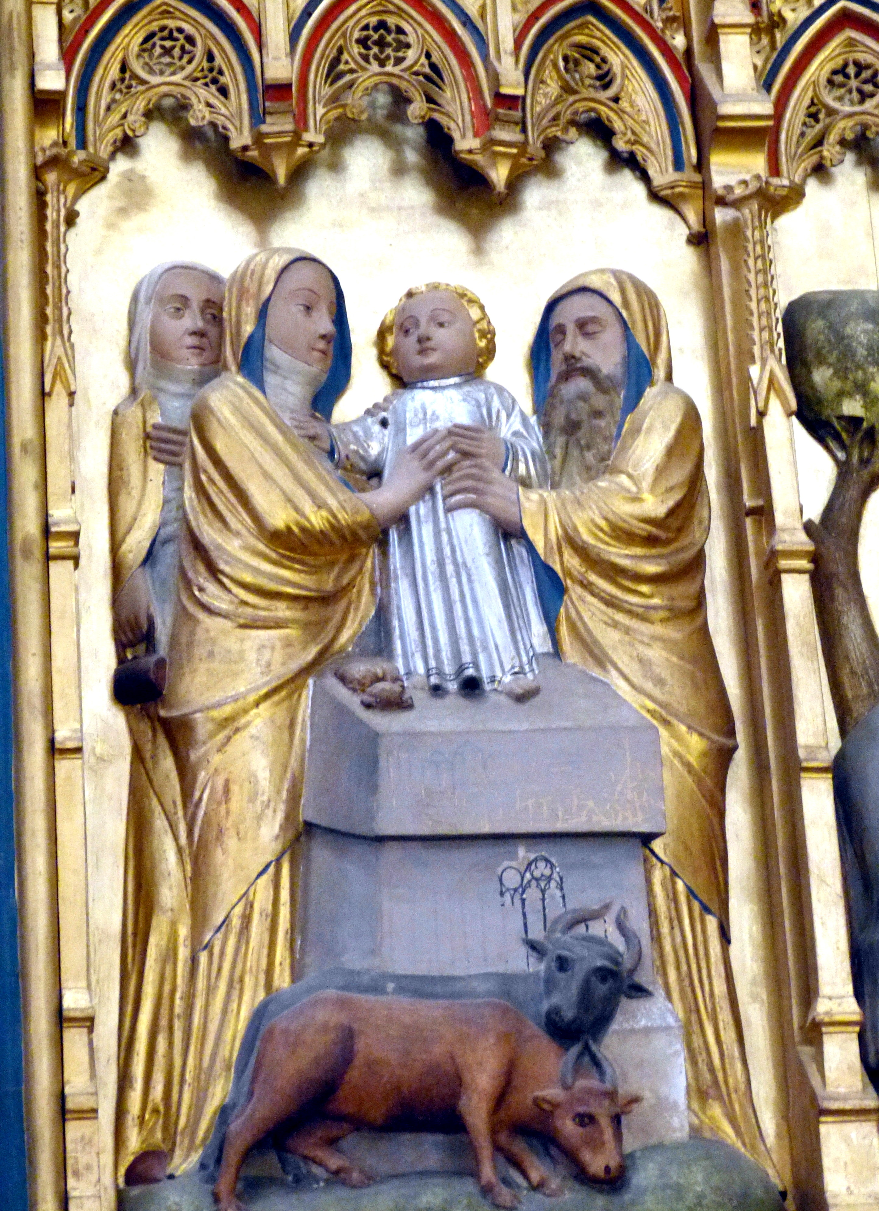 Bad Doberan ( Mecklenburg ). Minster: Altar of Cross - Mary's side ( 1370s ): Hannah presents her son Samuel to the temple.